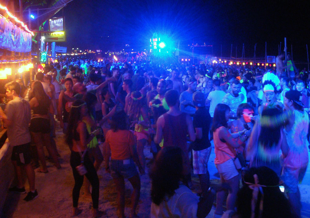 Full Moon Party 23rd February 2016, view from The Rocks up Haad Rin Sunrise Beach, Koh Phangan, Thailand.